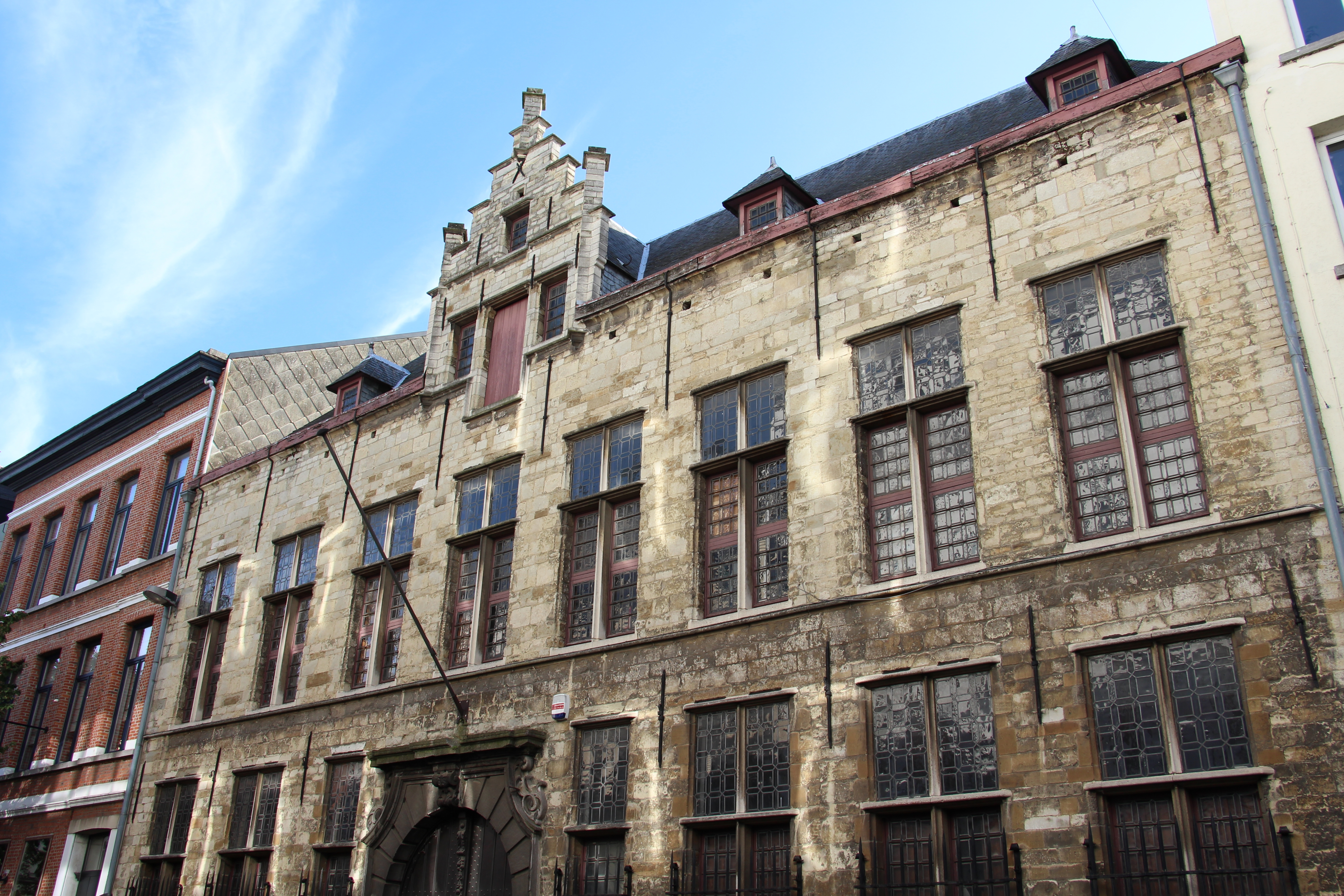 Kloosterstraat The older parts of the mansion were built in 1547 and 1555. It underwent major changes in 1619 and 1698. The building then gradually fell into disrepair. In 1943 it was put at the disposal of the Société de Géographie Royale d'Anvers. After renovation, it now houses various activities such as the Atelier d'Anvers, Artevino winestore, the Home Project decoration store and a photo gallery